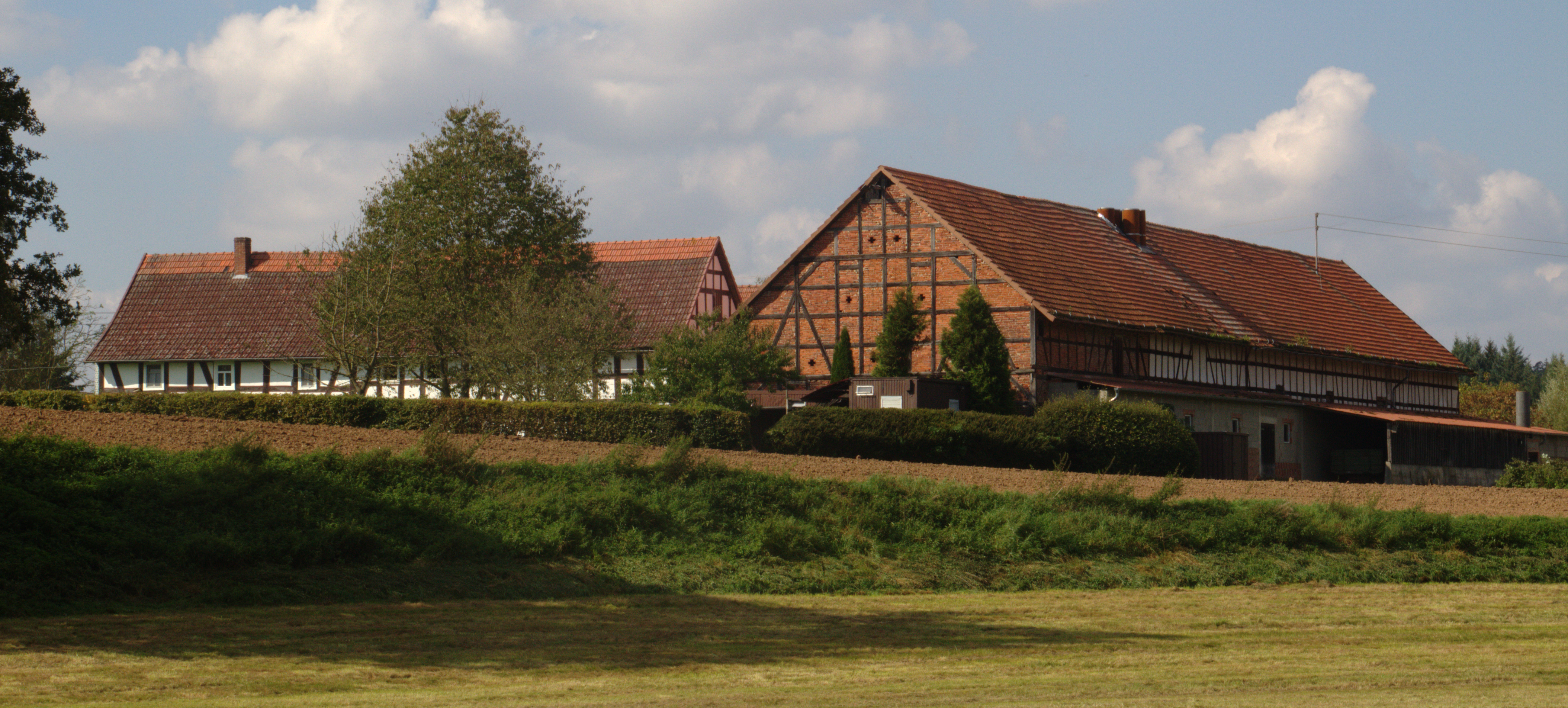 Half-timbered buildings in Hattendorf Berfhof 2, Alsfeld, Hesse, Germany